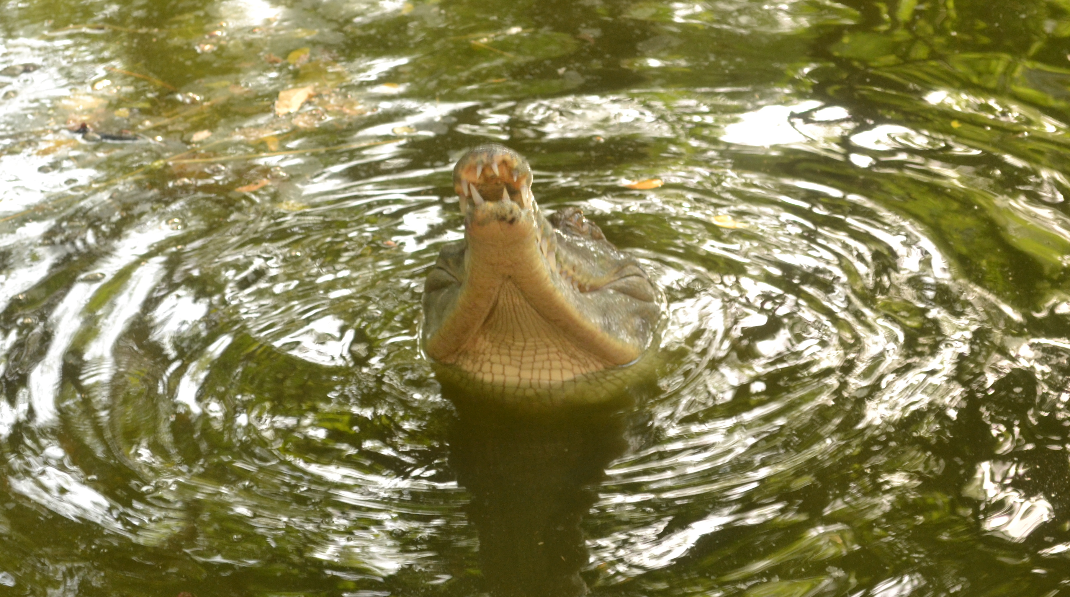 A captive African Slender Snouted Crocodile